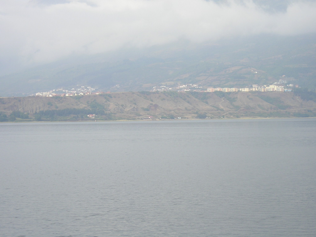 Overview of the city of Debar on Lake Ohrid, R.o.Macedonia Панорама на градот Дебар, Македонија Panorama miasta Debar nad Jeziorem Ochrydzkim, Macedonia